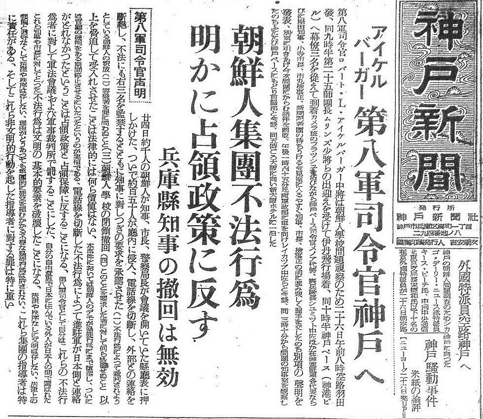 Kobe Shimbun newspaper clipping (27 April 1948 issue)